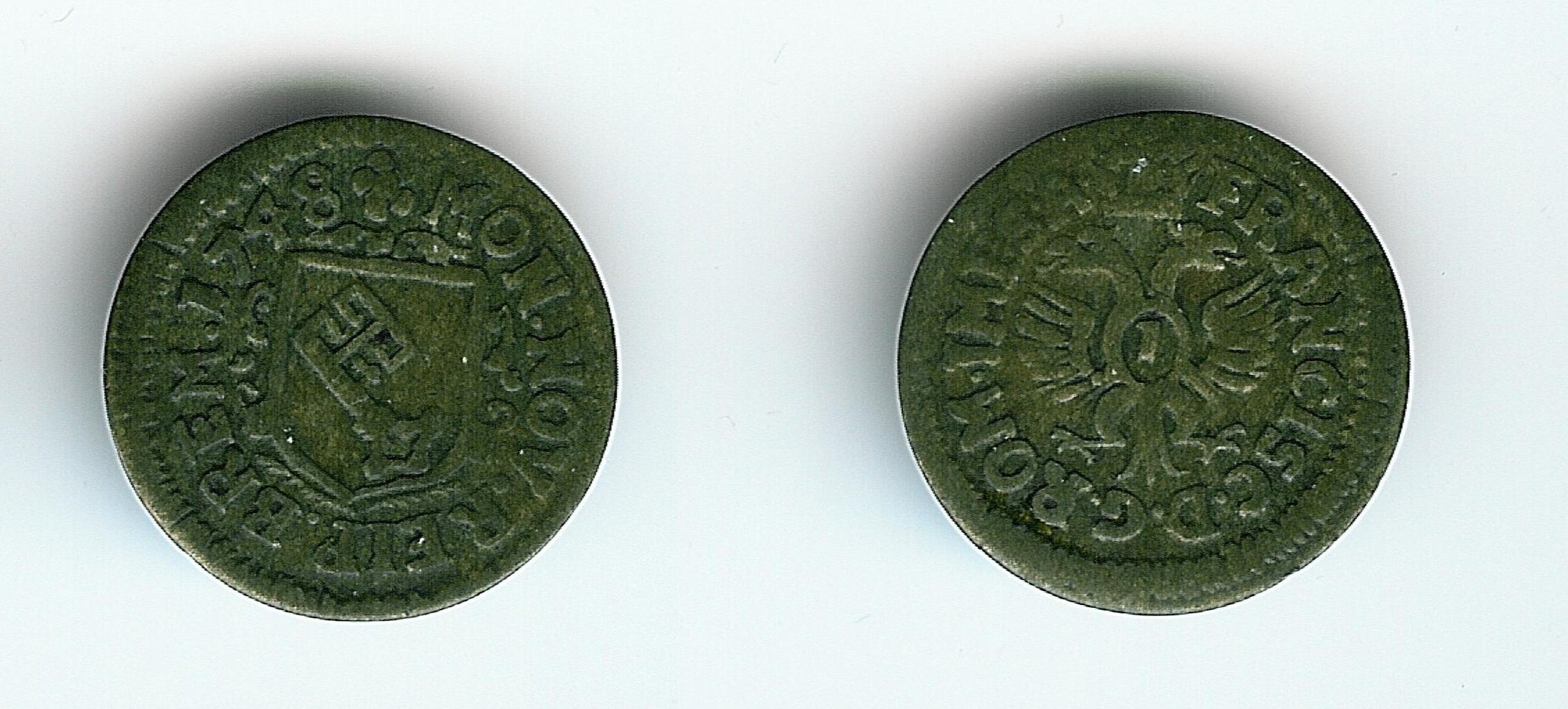 Small coin of unidentified denomination from the state of Bremen dated 1748. Inscription "Mon. Nov. Reip. Brem." probably signifying "Moneta Nova Reipublicae Bremensis" accompanied by the Bremen coat of arms. Inscription "Francisc. D. G. Rom. Imp. S. A." probably signifying "Franciscus Dei Gratia Romanorum Imperator Semper Augustus" accompanied by the double-headed eagle of the Holy Roman Empire.